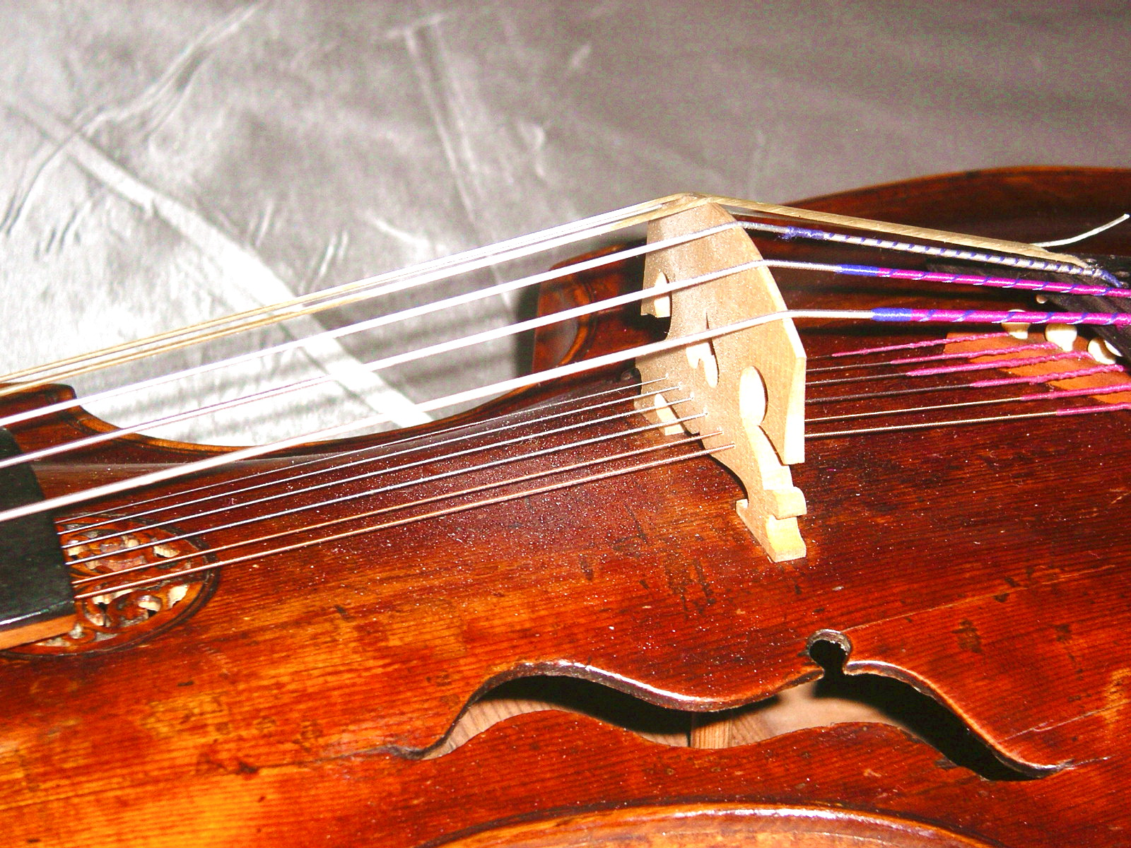 A Viola d'amore by Johann Paul Schorn, built no later than 1715 and no earlier than 1700. Close up showing 6 playable and six sympathetic strings. Instrument belongs to Anton Steck.